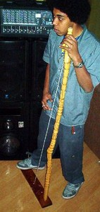 Electric Washtub Bass, also known as an Electric Inbindi. Public domain photo by David Walley. [dead link] (archive)